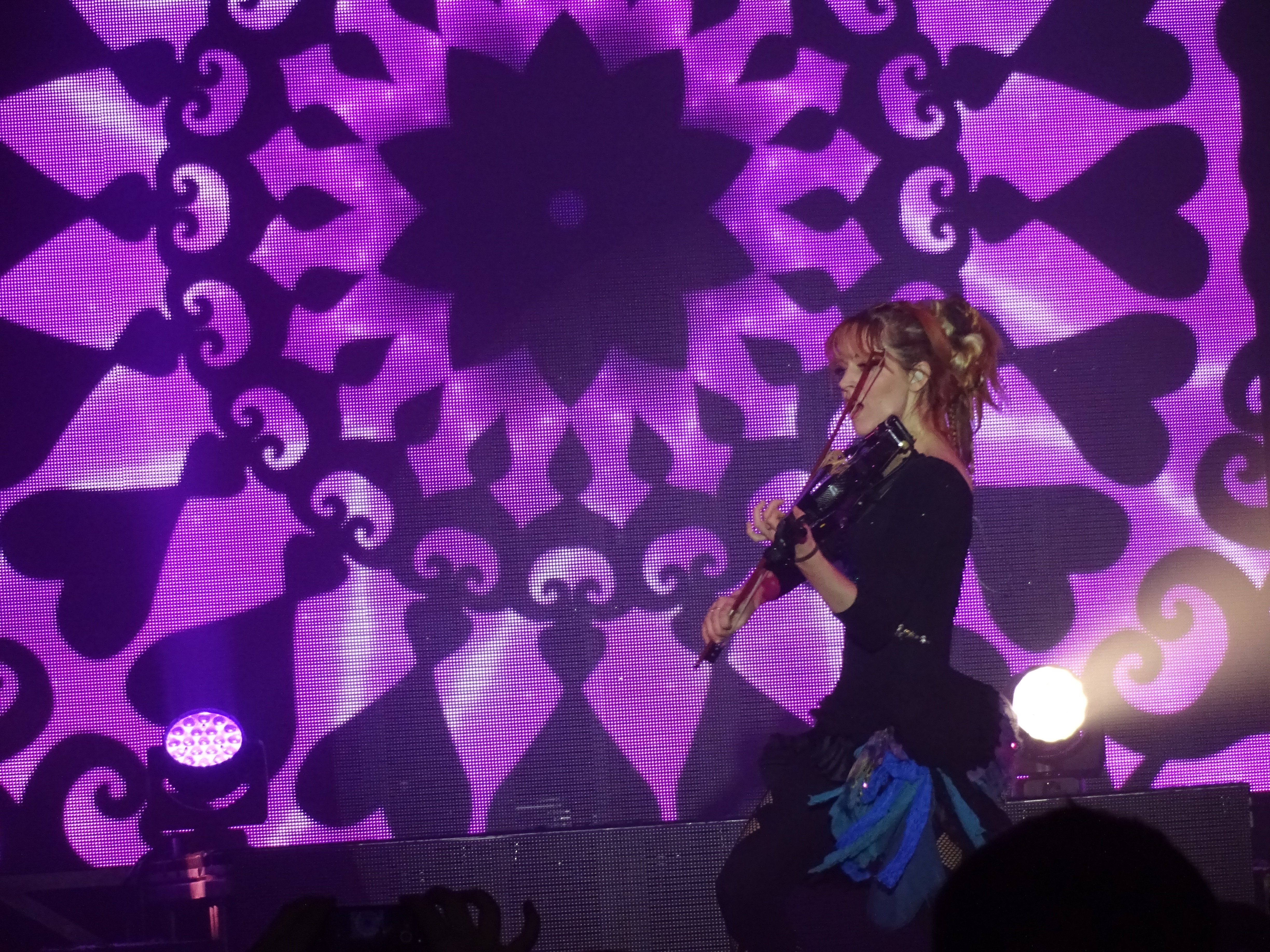 Lindsey Sterling Cenon near Bordeaux France 2014